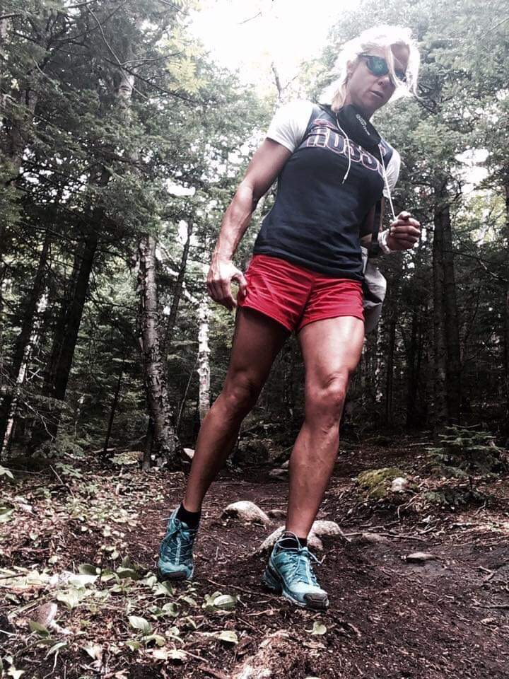 Monique Richard training - selfie